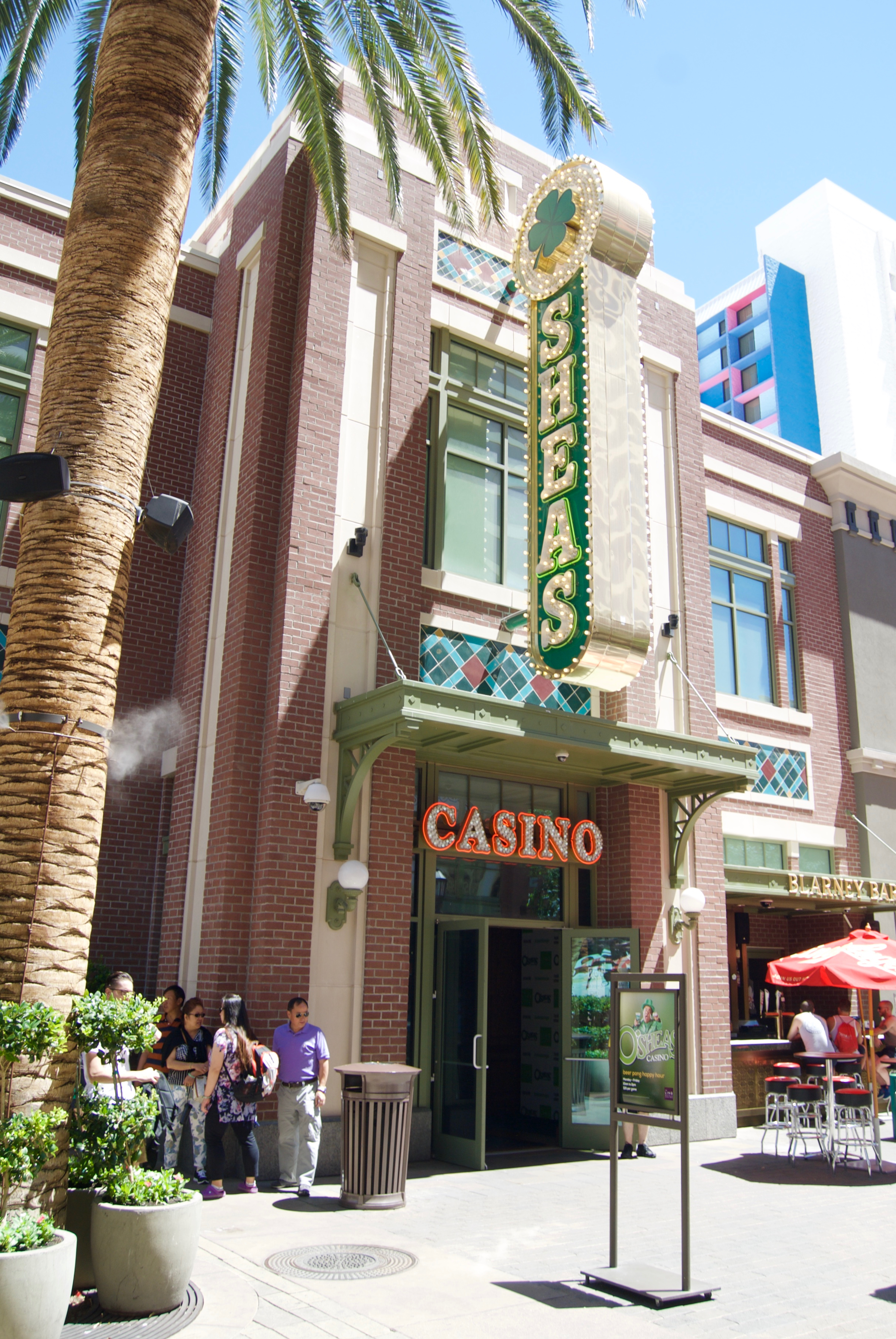 The new O'Sheas casino in Las Vegas.